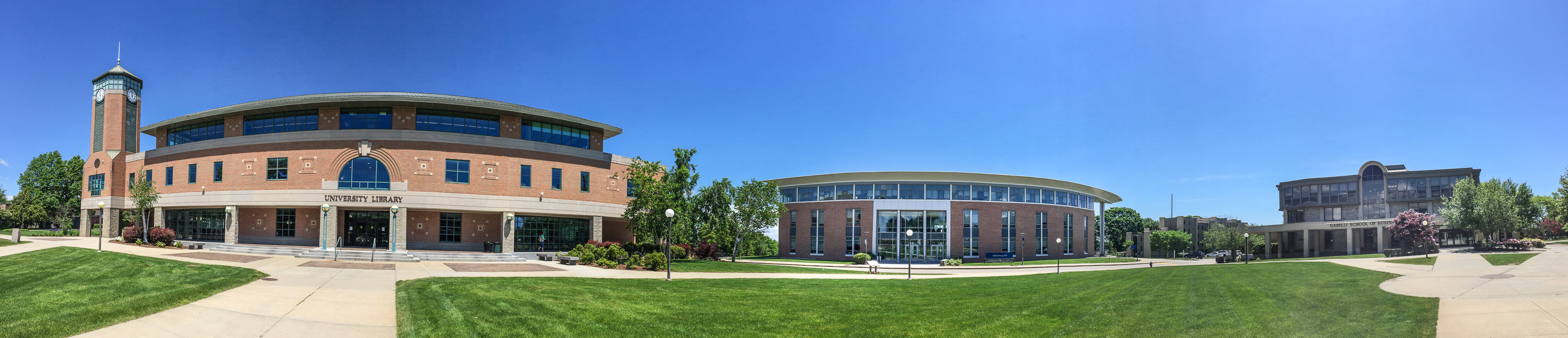 Roger Williams University. Left to right: University Library; Global Heritage Hall; Mario Gabelli School of Business. Bristol, Rhode Island